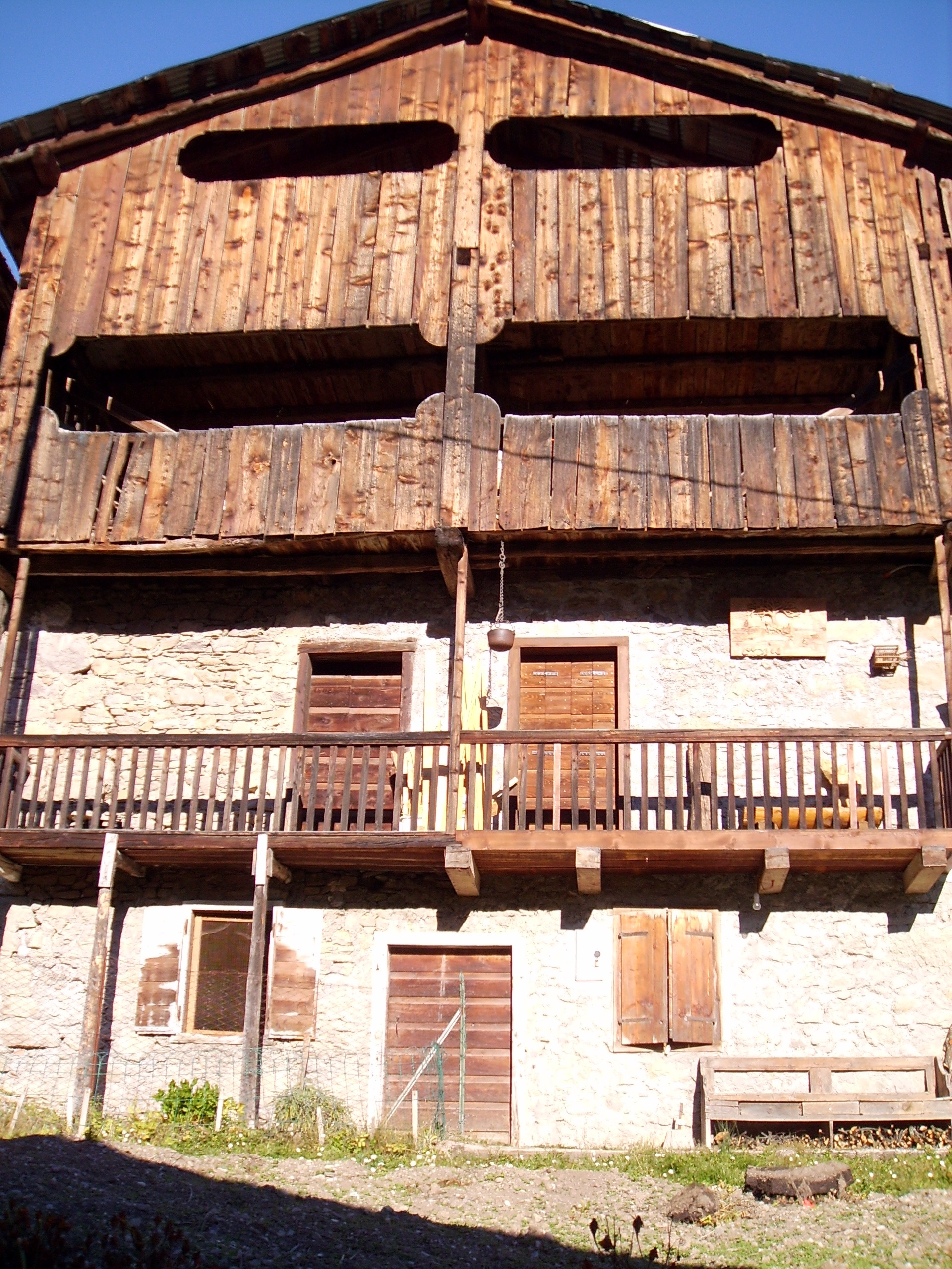 farmohouse in Calalzo di Cadore ,Belluno,Italy